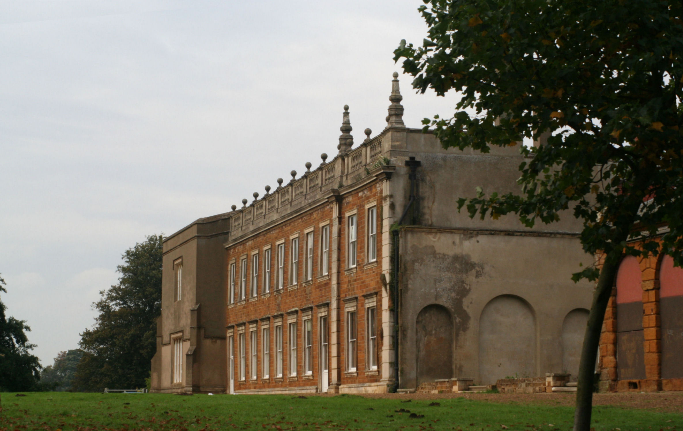 Delapré Abbey, Northamptonshire, 18 October 2005